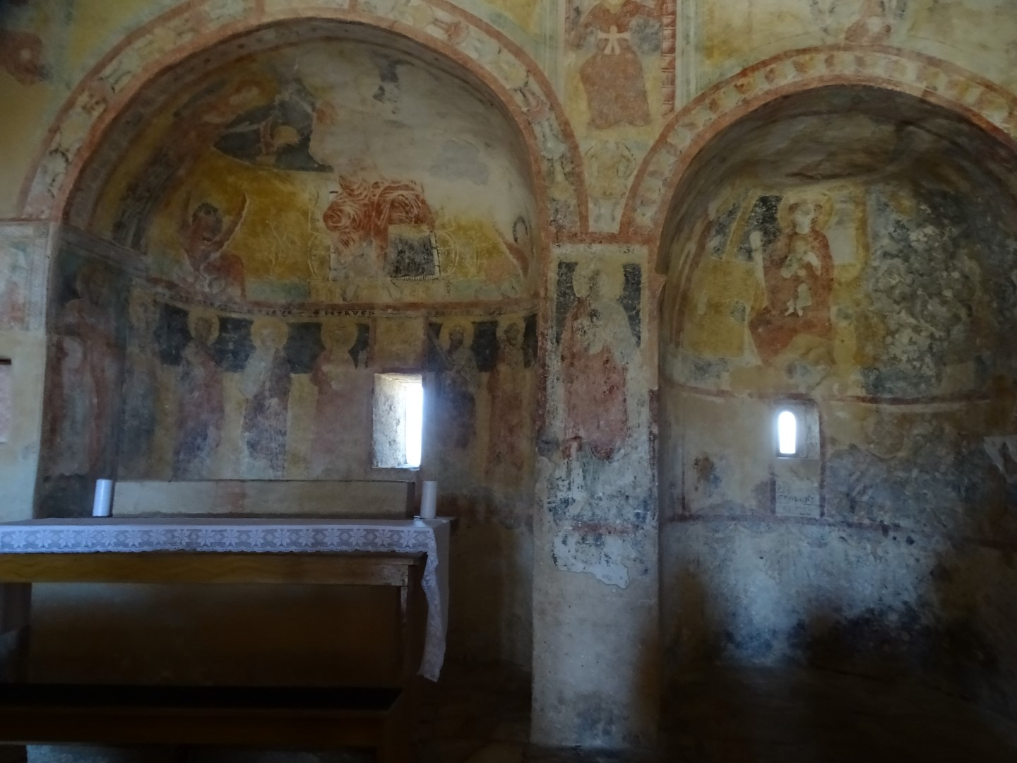 Church of St. Vincent - 12th century frescoes